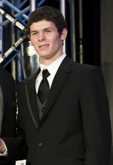 Ryan Truex at the 2009 Camping World East Series awards banquet